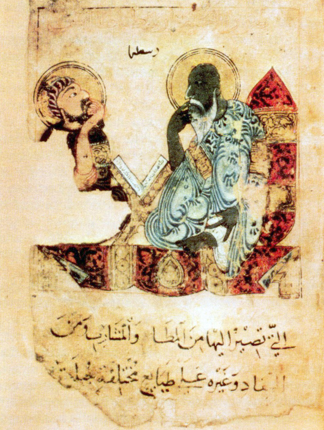 Cropped version of File:Arabic aristotle.jpg; Aristotle teaching, from document in the British Library. From: Seyyed Hossein Nasr (1976). Islamic Science:An Illustrated Study, World of Islam Festival Publishing Ltd.. ISBN 090503502X